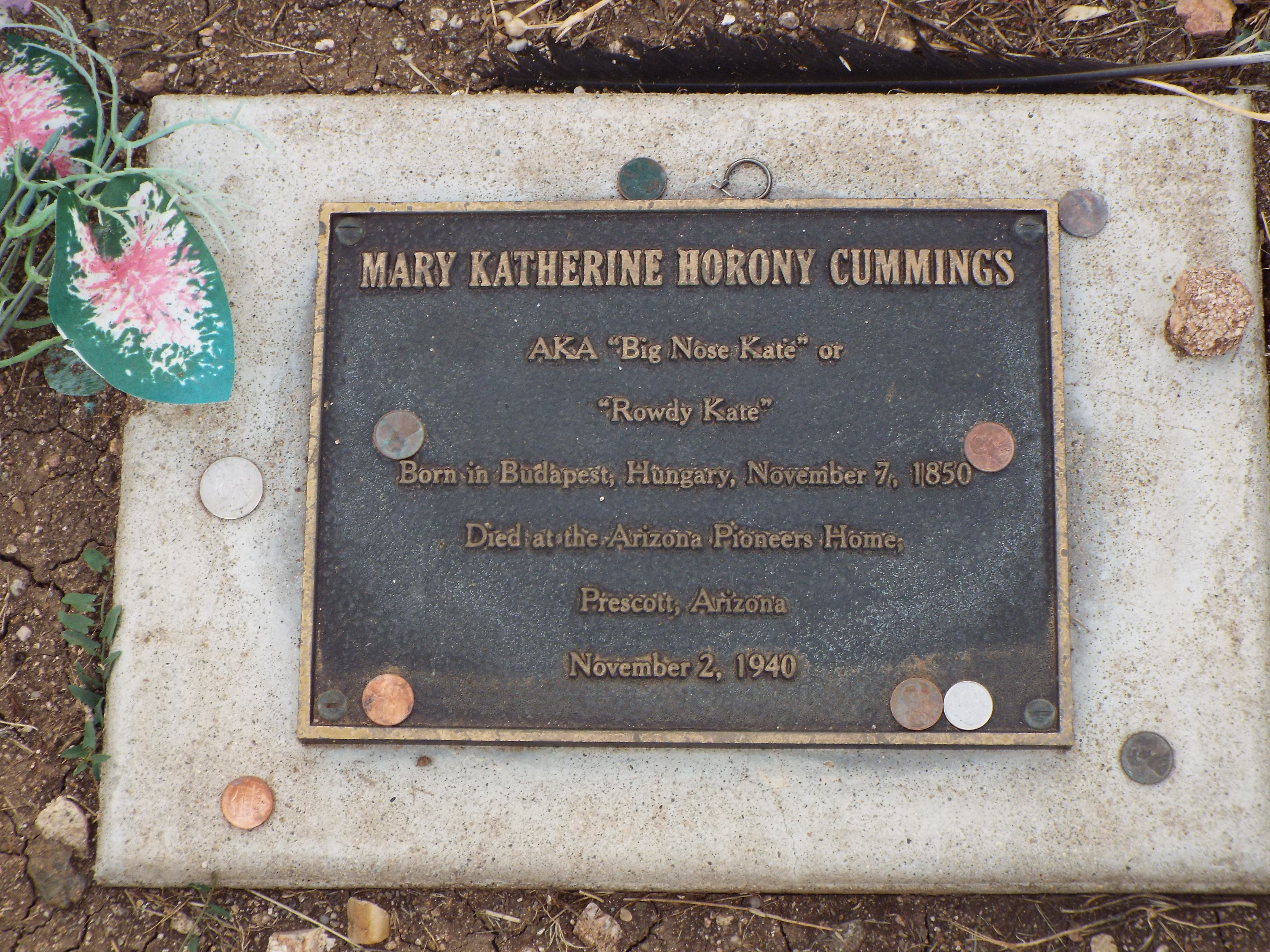 The gravesite of Big Nose Kate in the Arizona Pioneer Home Cemetery in Prescott, Arizona.